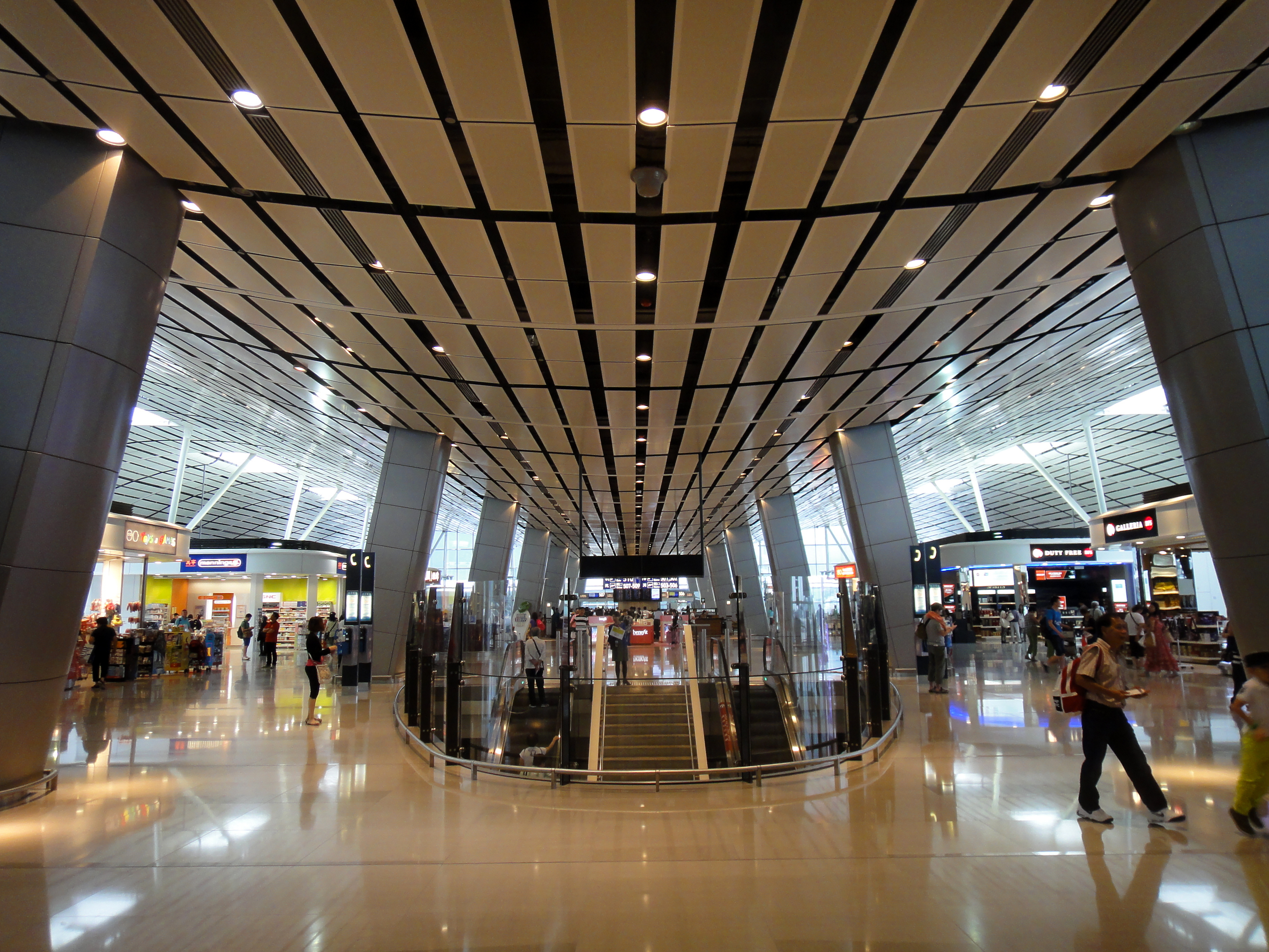 Interior view of Satellite Terminal, Hong Kong Airport. Escalator leads up from bus connection to main terminal building.